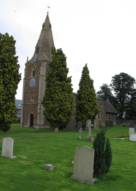 All Saints parish church, Slawston, Leicestershire, seen from the southwest